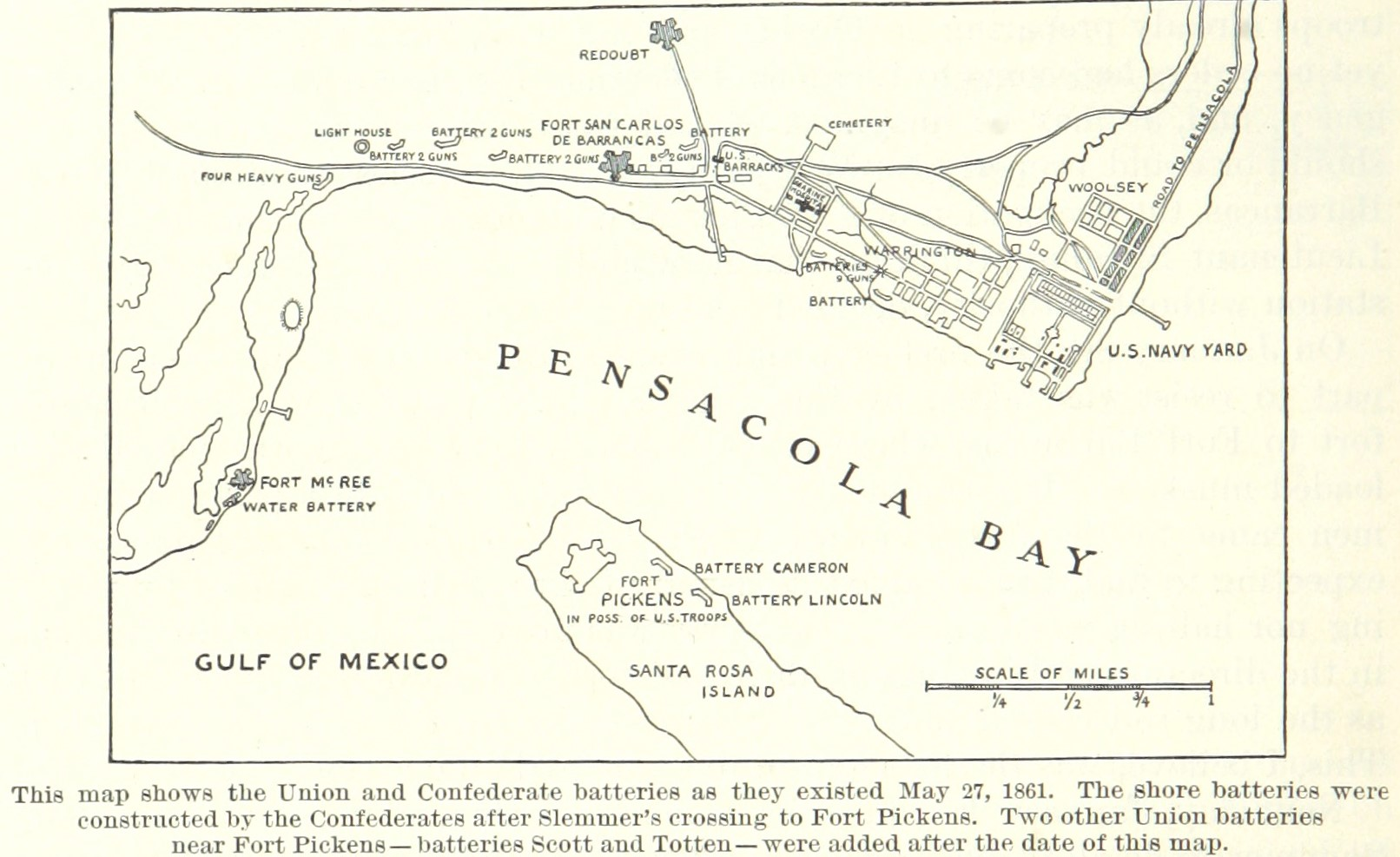 The Union and Confederate forts around Pensacola Bay on 27 May 1861.